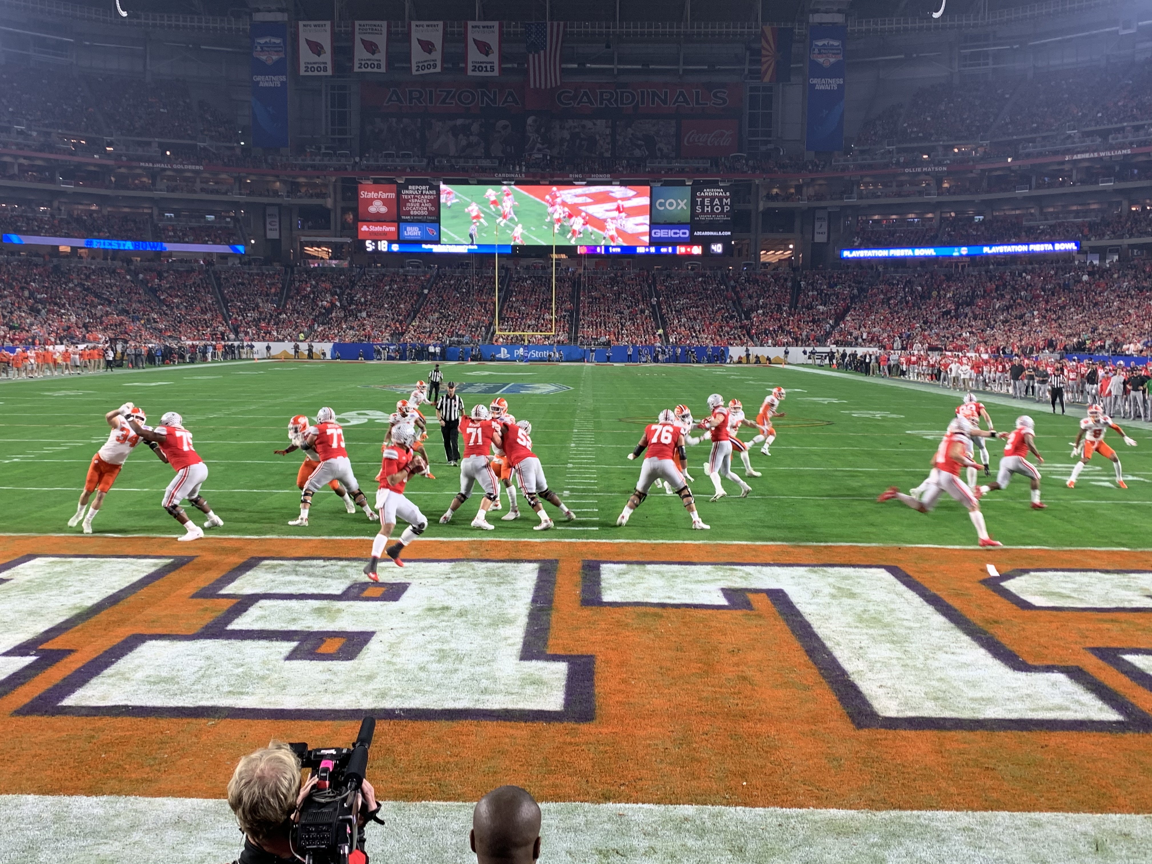 Ohio State quarterback Justin Fields attempting a forward pass deep in Clemson territory at the December 2019 Fiesta Bowl. Photo taken from the south end of the stadium in the first quarter.